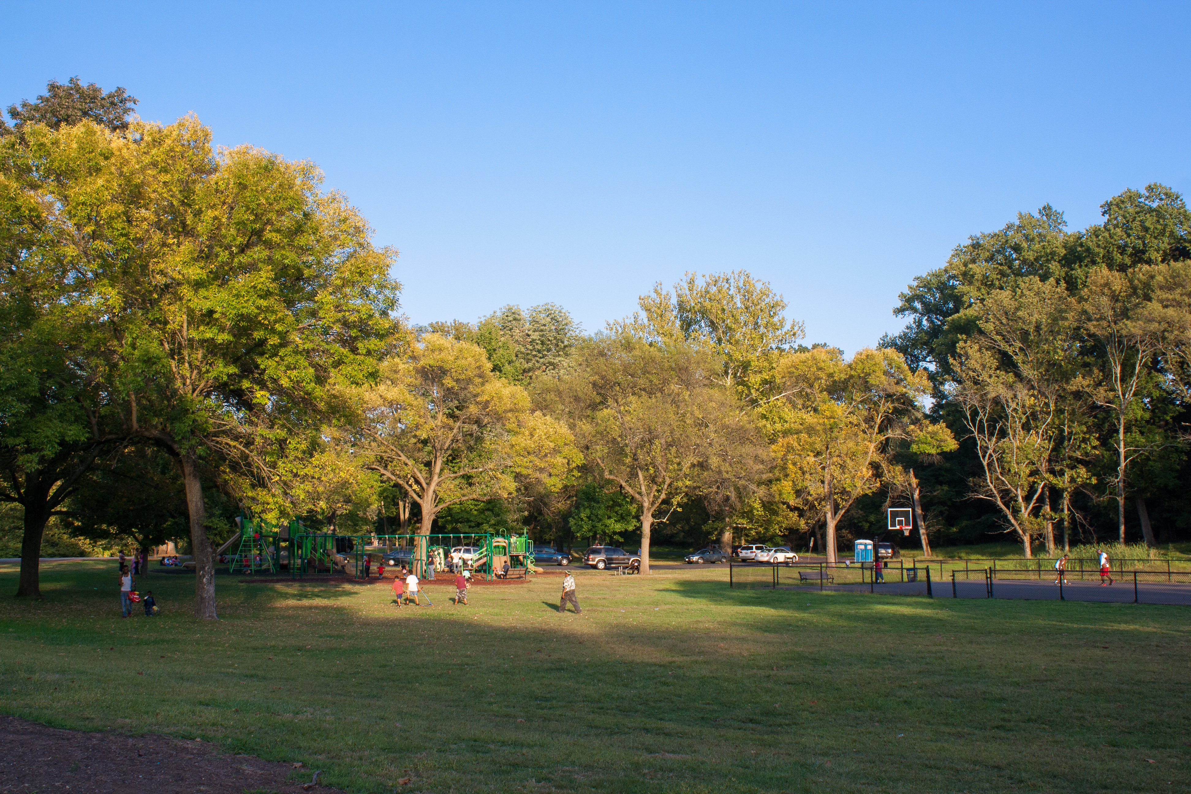 Green Brook Park, All parkland from Clinton Ave. to west of West End Ave., and the junction of Lawrence and Parkview Ave., Fisk and Townsend Pls. Plainfield